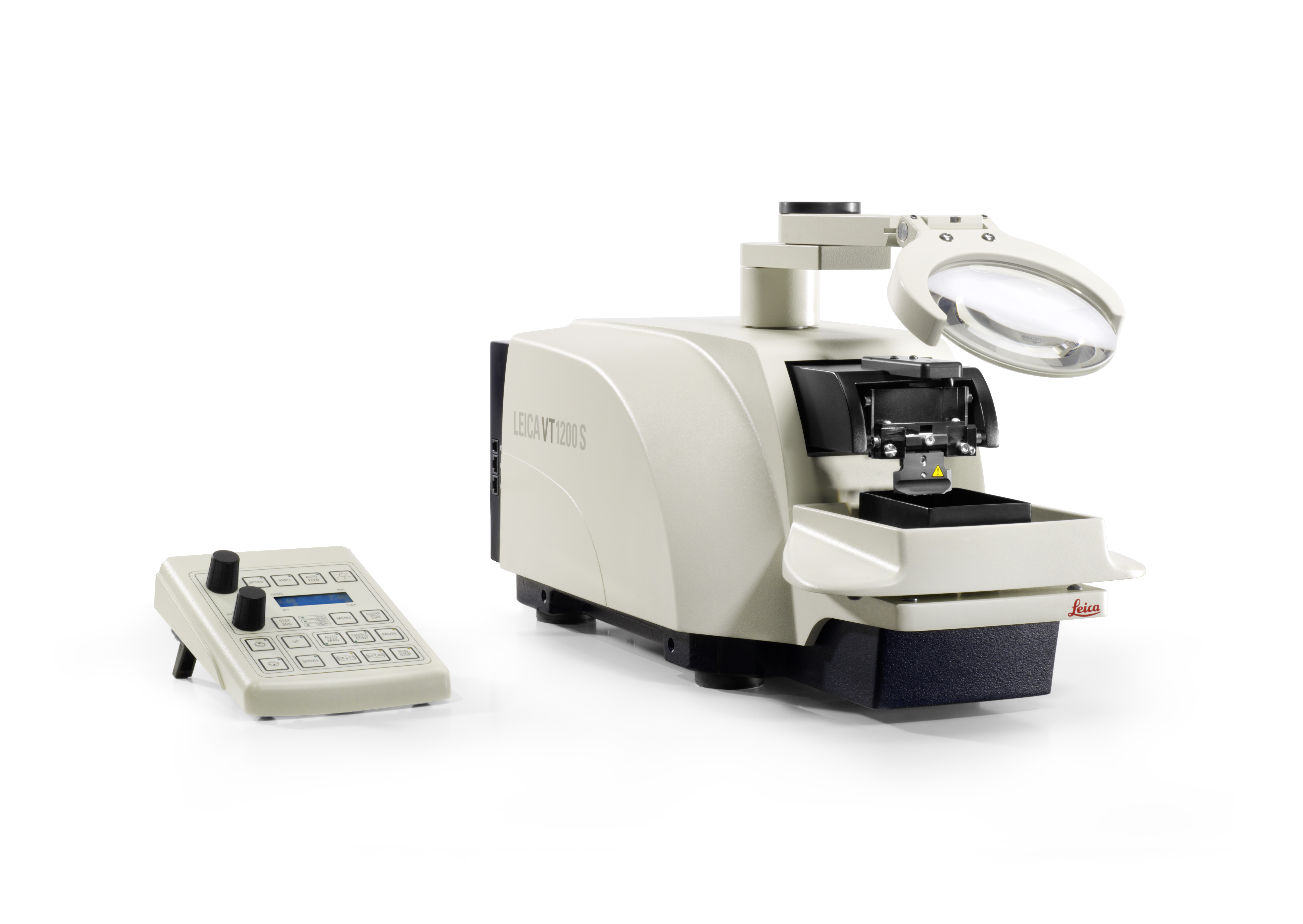 Vibratome produced by Leica Biosystems